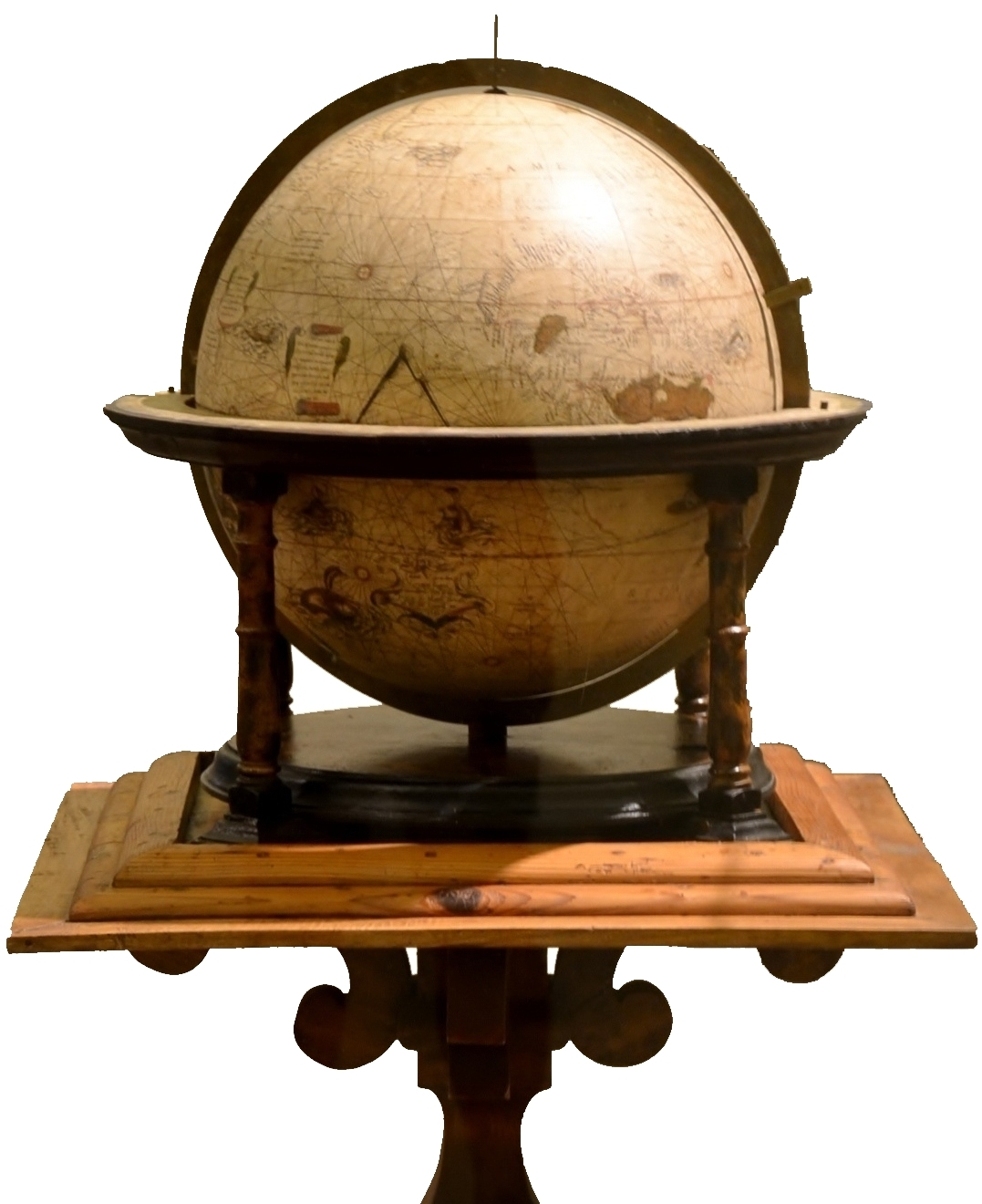 Globe from Gerardus Mercator, stands now in Urbania, formaly a part of the Papal States, nowaday Italie; produced about 1542; Earth Globus signed from Mercator and dates with 1541; is nowaday standing in a museum and one of the about 22 existing globes [1 ]